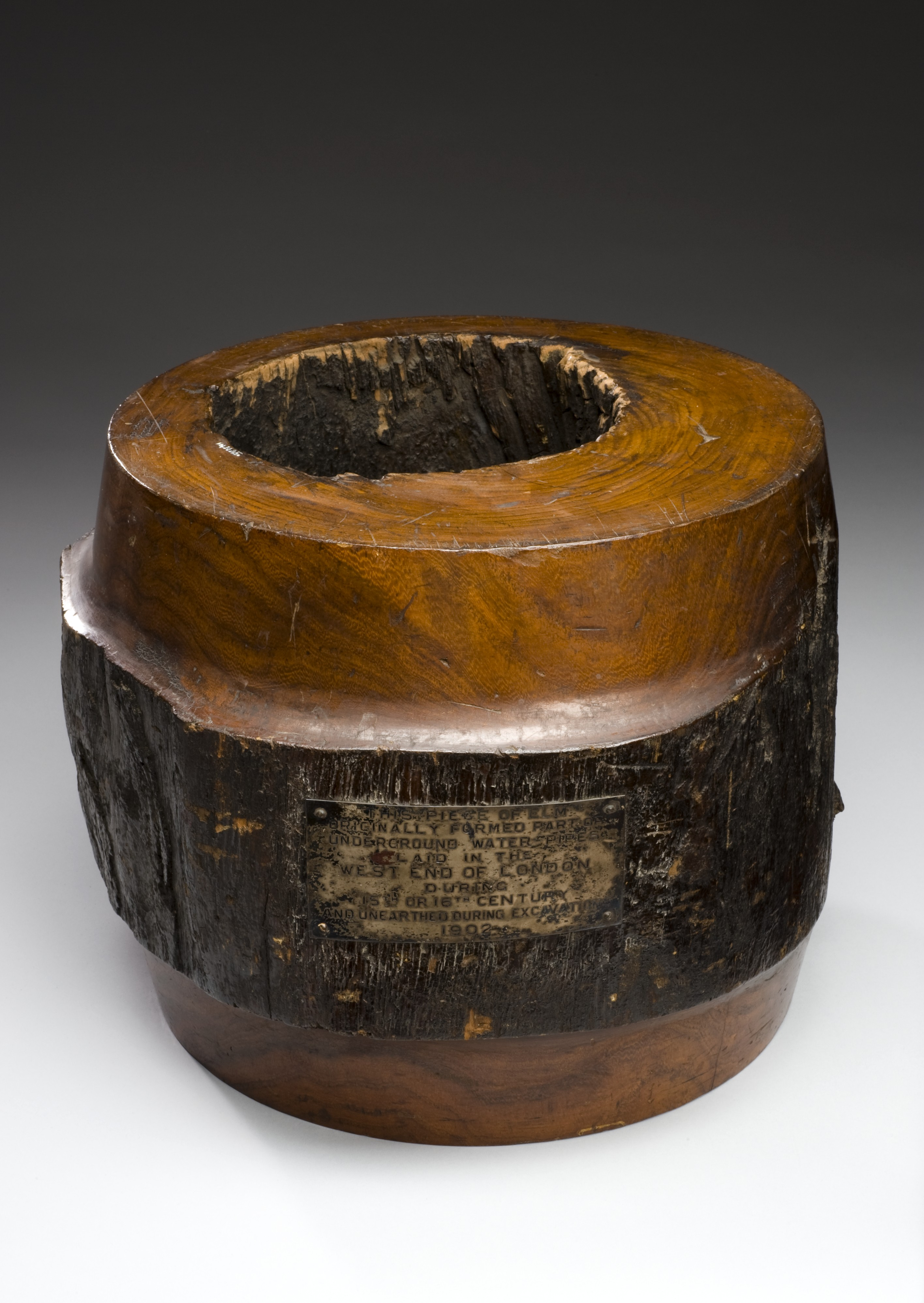 This water pipe was found during an archaeological excavation in West London in 1902. The pipe originally formed part of an underground network supplying parts of London with water. Made from elm and measuring 370 mm in diameter and weighing over 8 kg, this type of wood was a popular choice for water pipes as unlike other woods it does not decay when kept permanently wet. Elm pipes were used until the 1700s. maker: Unknown maker Place made: England, United Kingdom Wellcome Images Keywords: water pipe